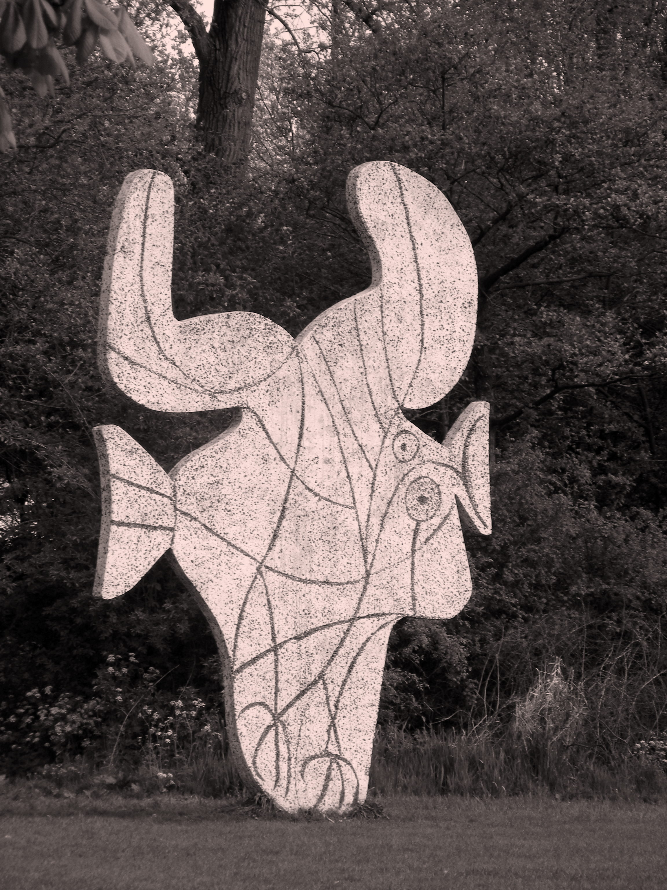 sculpture Figure découpée (1965) by Pablo Picasso /Vondelpark in Amsterda/The Netherlands